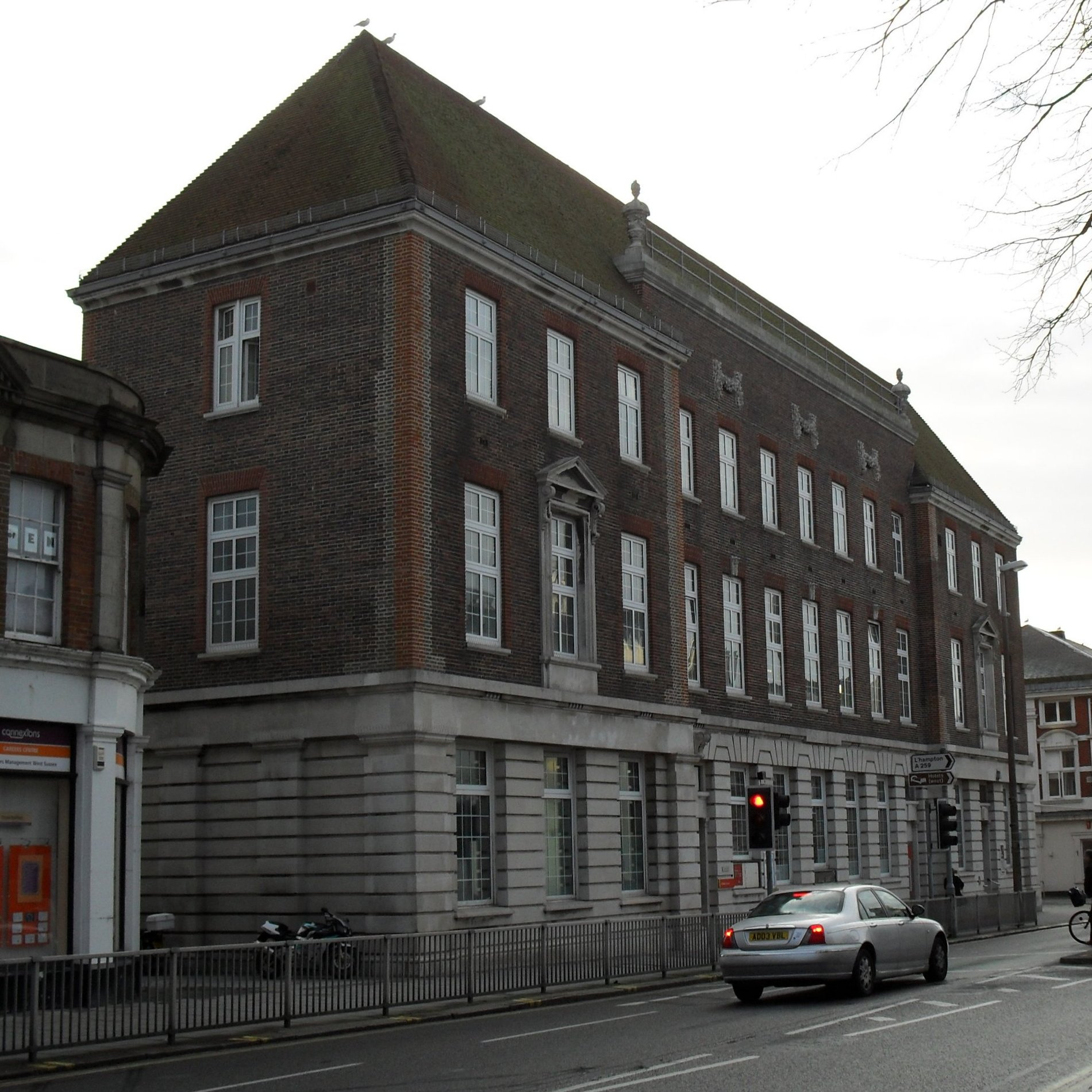 Worthing's central Post Office, Chapel Road, Worthing, West Sussex, England. Designed by D.N. Dyke in 1930 in the Neo-Georgian style.